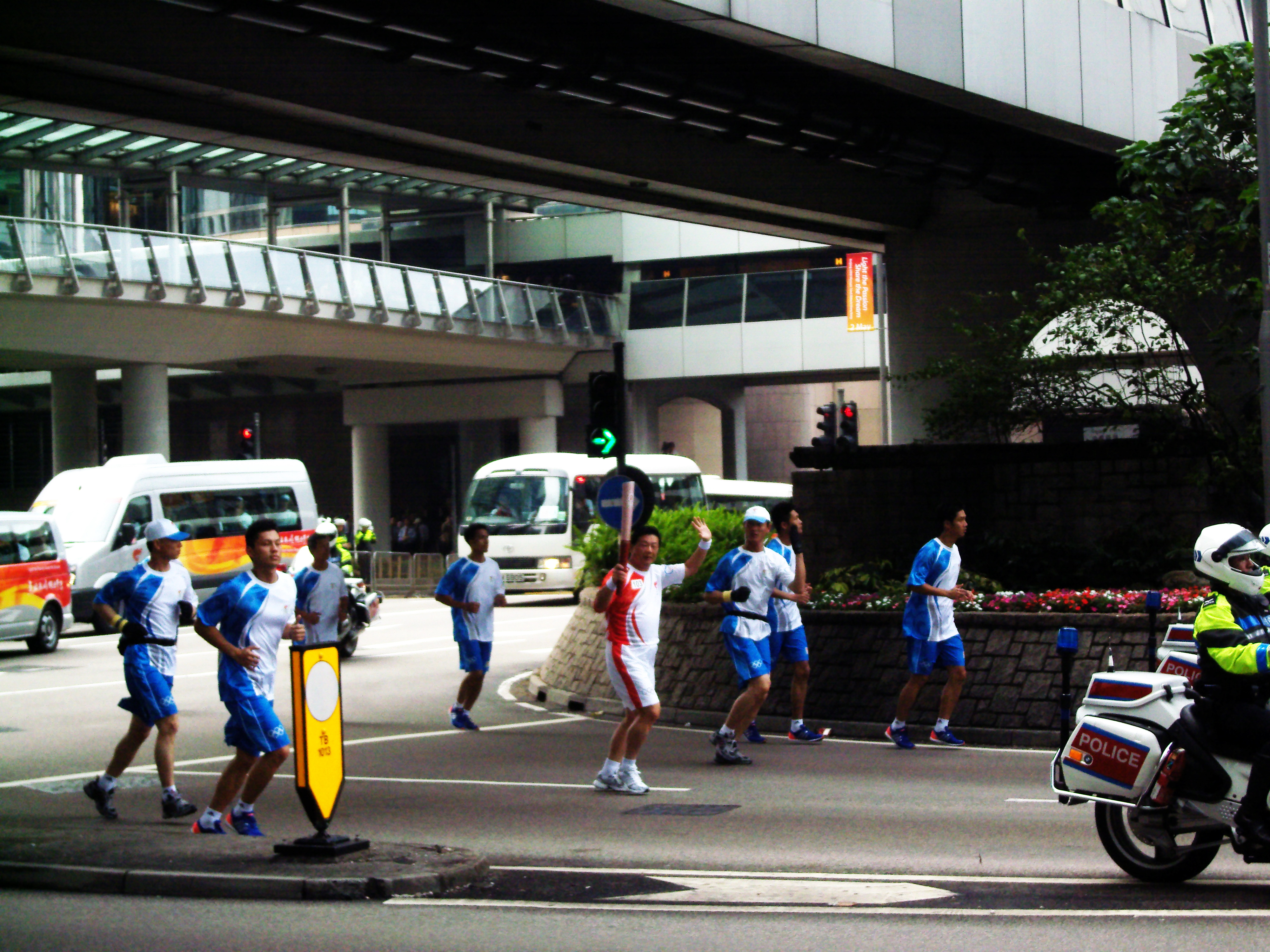 2008 Summer Olympics Torch in Central, Hong Kong.